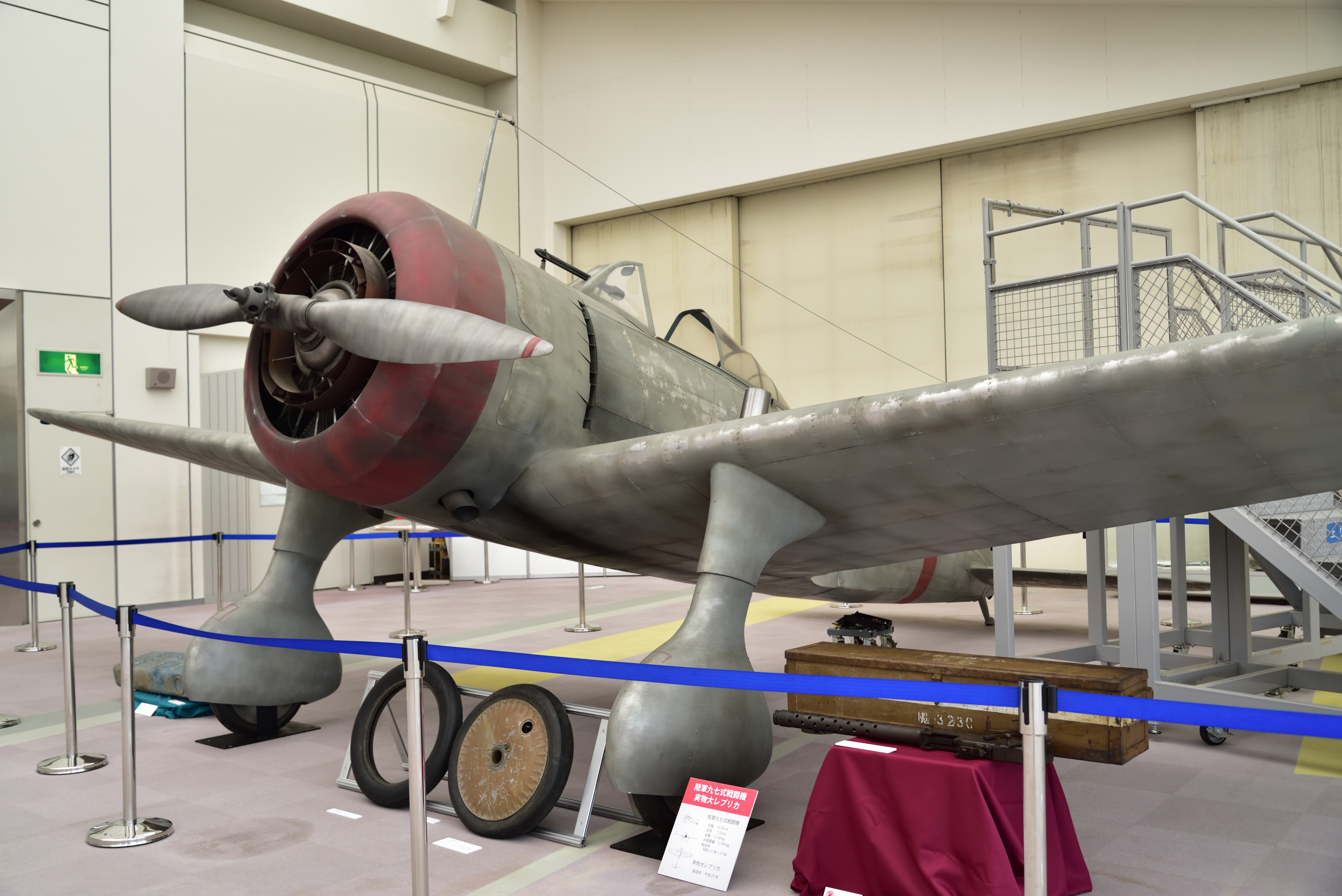 Replica of Nakajima Ki-27